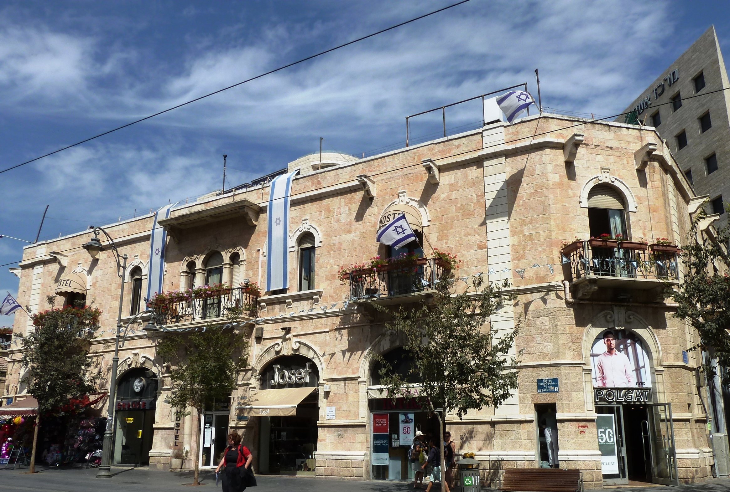 Jerusalem, Jaffa road 44 / Zion square, The Jerusalem Hostel, adorned with flags